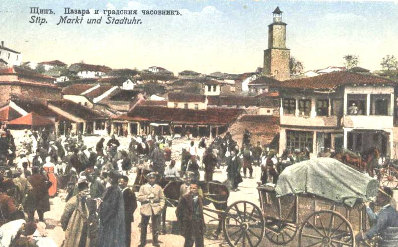 Old post card from Štip, Macedonia